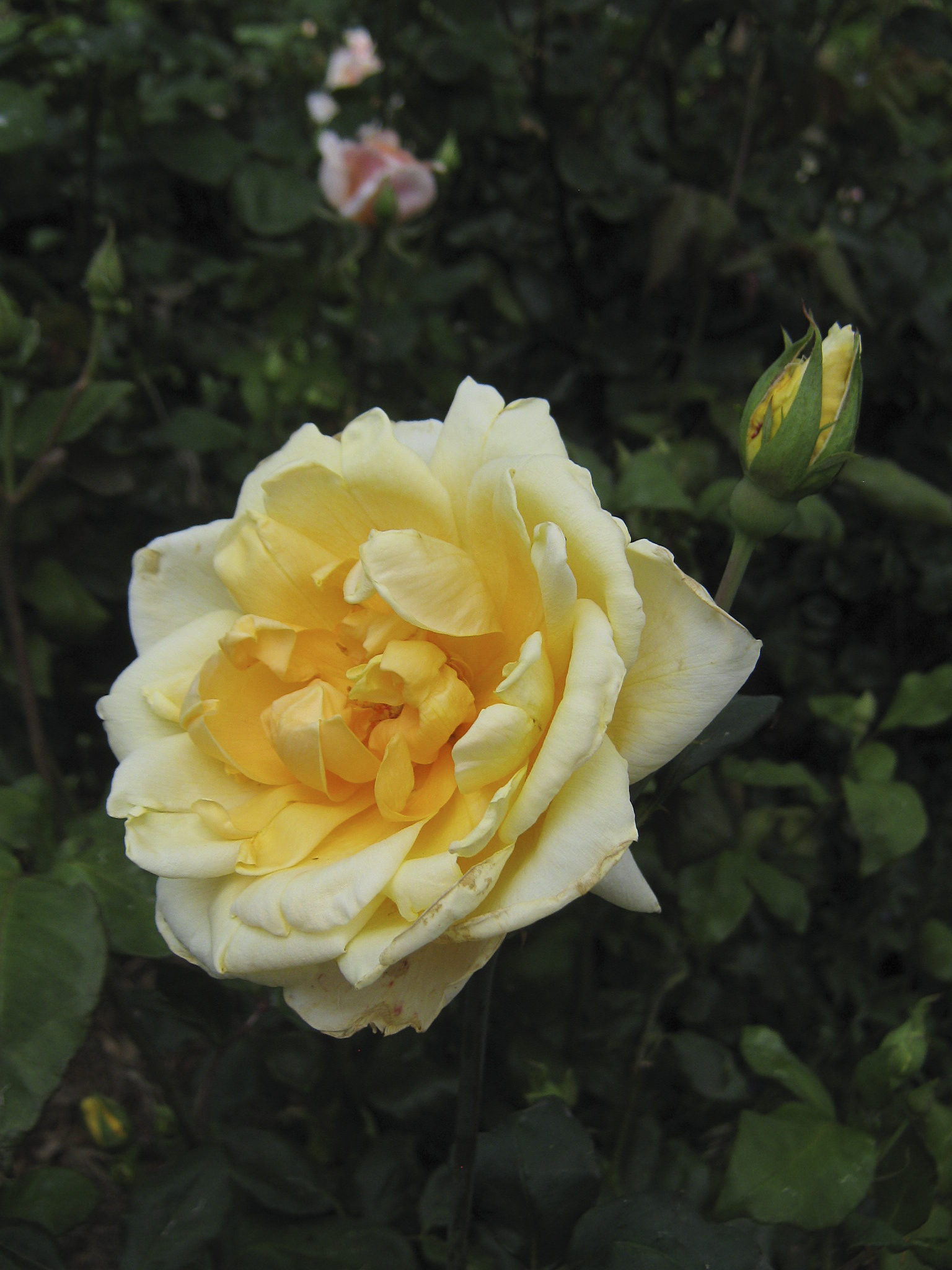 Rose 'Dividend', Hybrid Tea by Alister Clark 1931; photographed in the Alister Clark Memorial Rose Garden, Bulla, Victoria